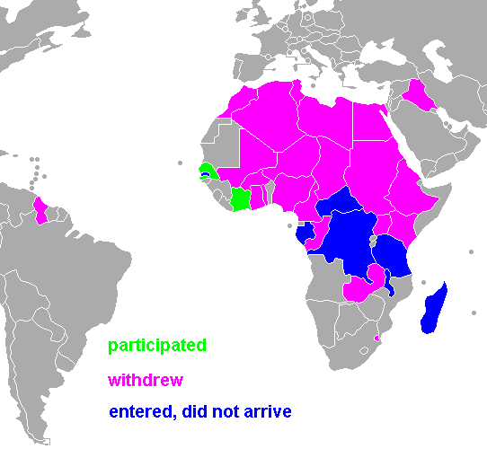 1976 African boycott